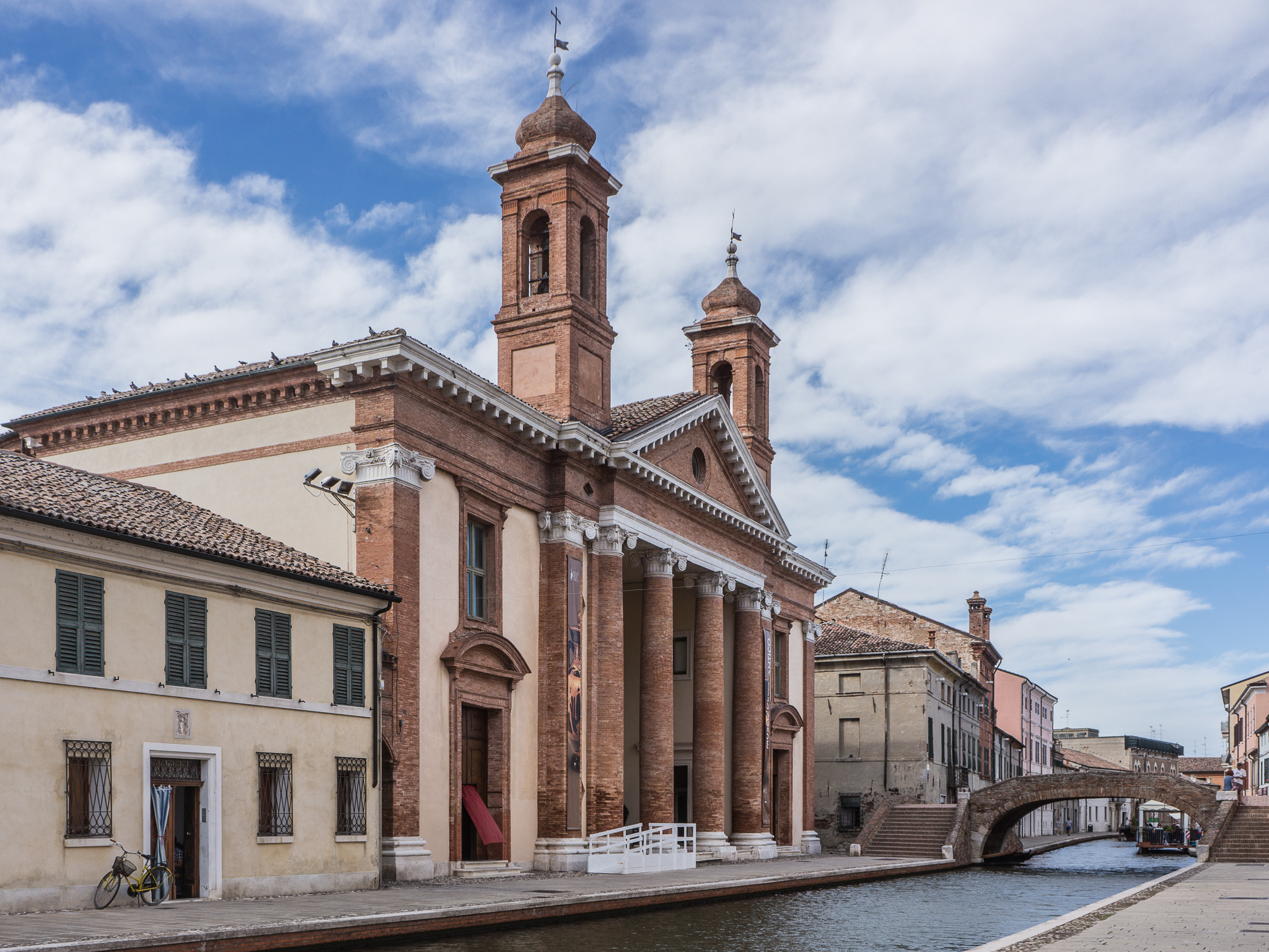 This is a photo of a monument which is part of cultural heritage of Italy.